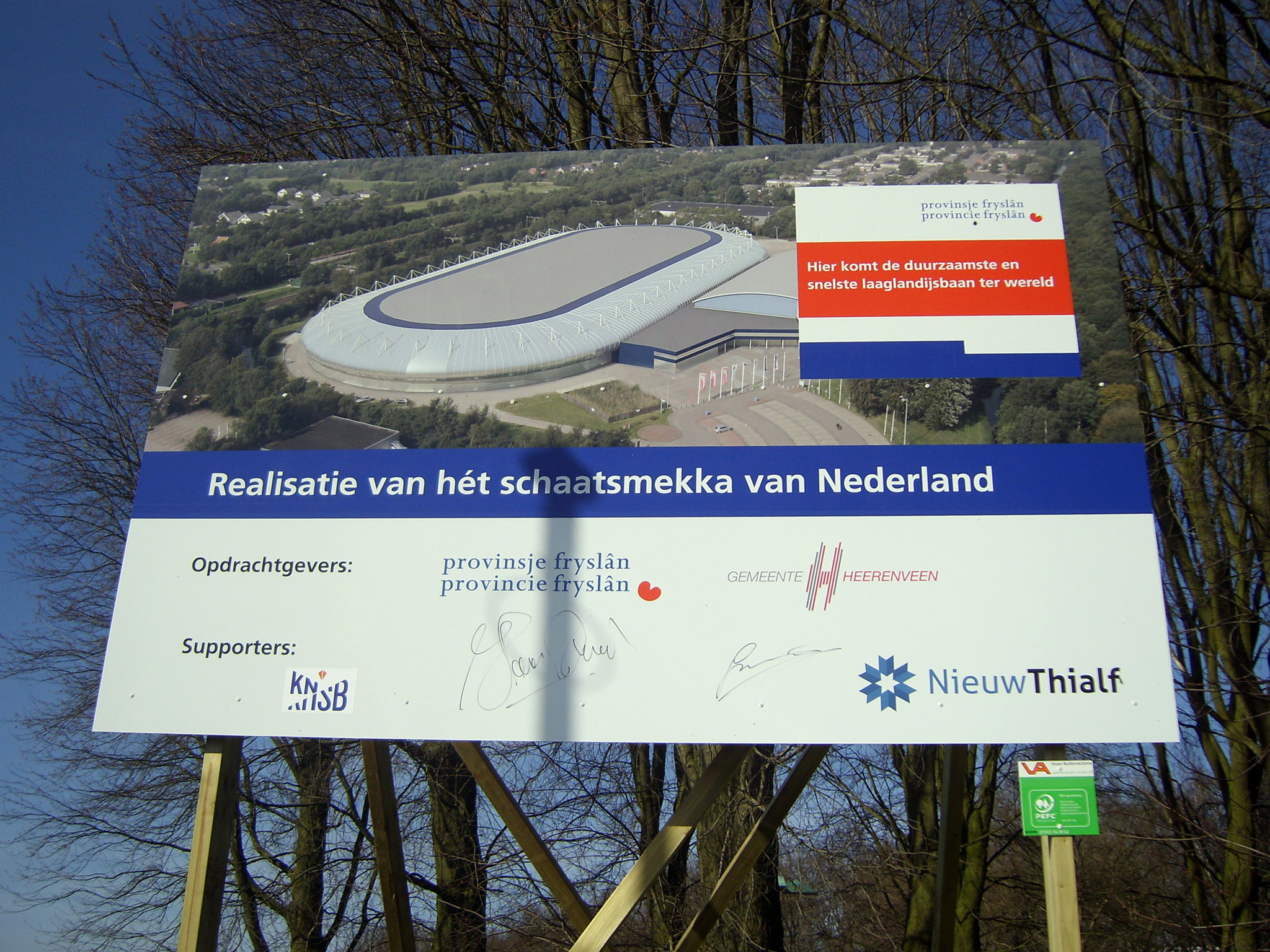 (Nieuwe) Thialf, Heerenveen, 9th Masters International Long Distance Races 2012